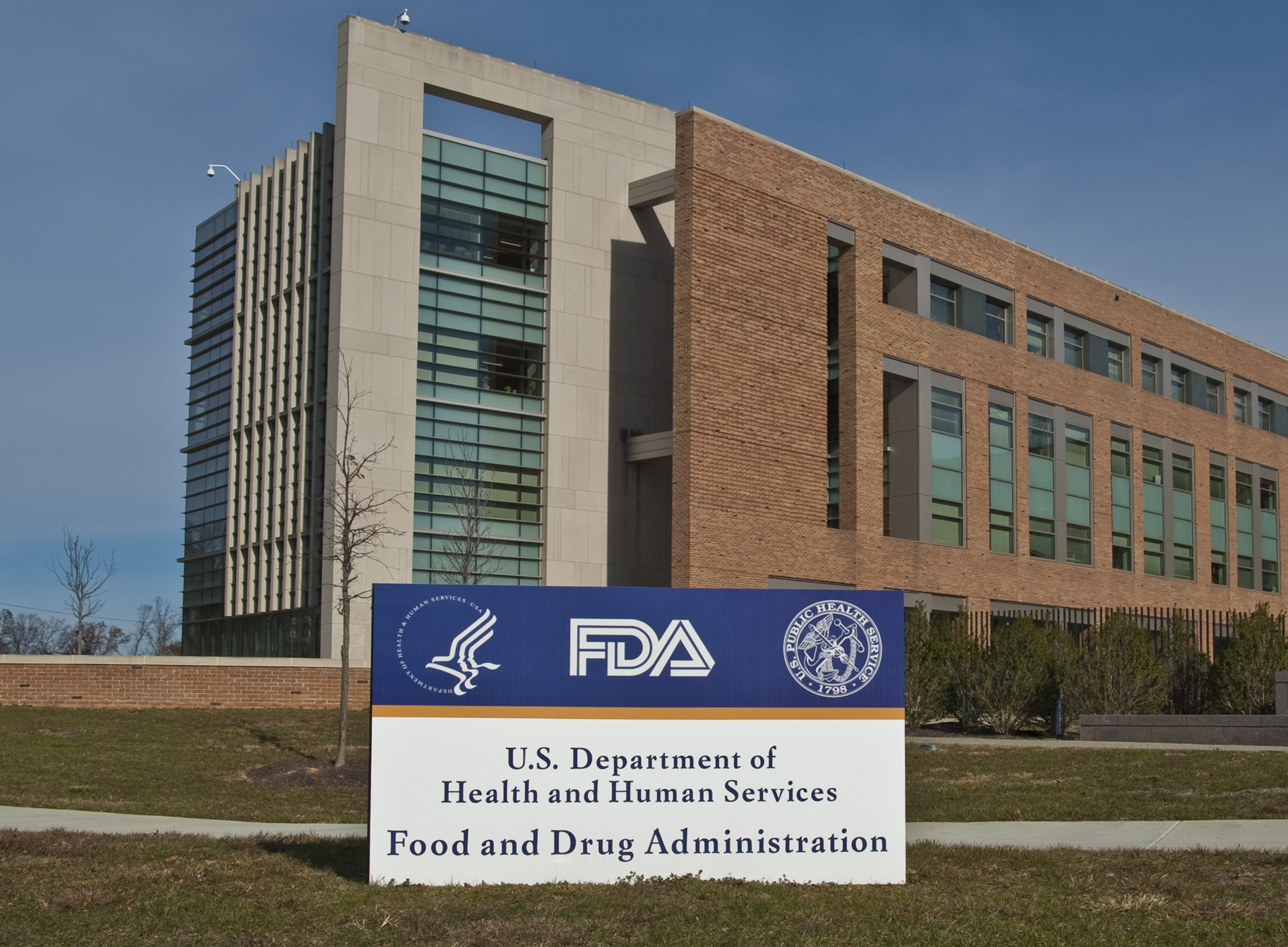 FDA Building 21 stands behind the sign at the campus's main entrance and houses the Center for Drug Evaluation and Research. The FDA campus is located at 10903 New Hampshire Ave., Silver Spring, MD 20993.